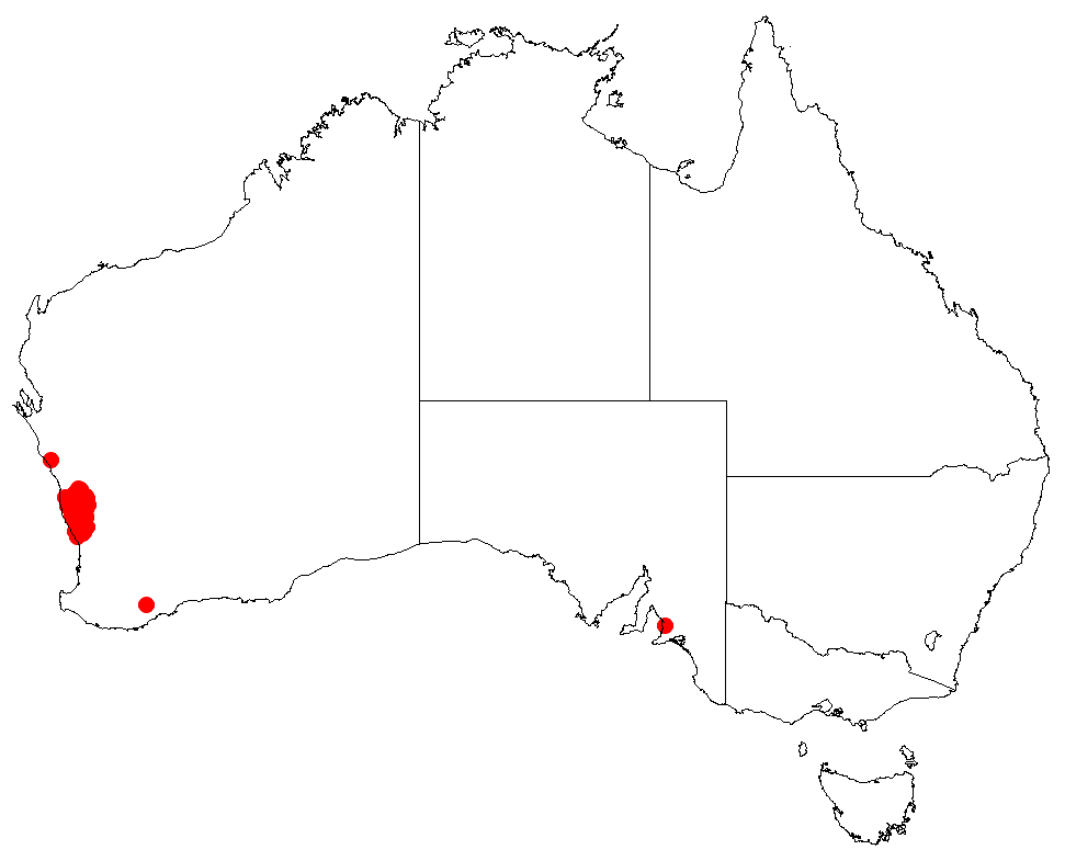 Hakea psilorrhyncha Occurrence data downloaded from Australasian Virtual Herbarium on 22 November 2018 using